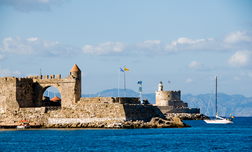 Fortress of Rhodes Old Town.